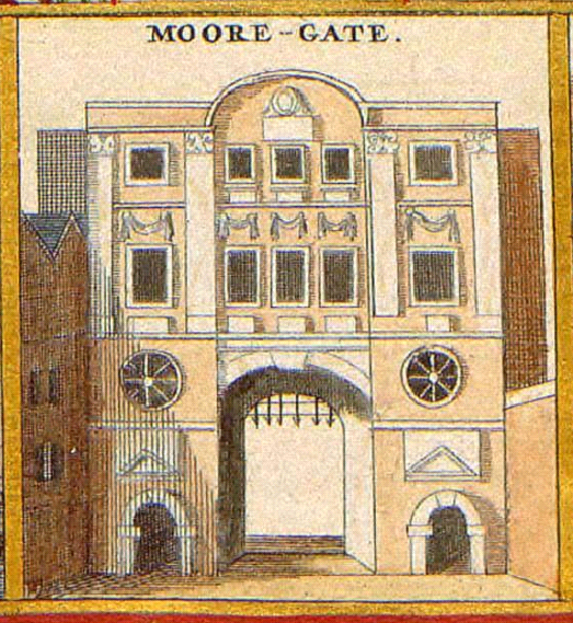 "Moore-gate" (Moorgate), a crop of a 1690 map of London with boxed illustrations of the gates of below plan of city (full map).